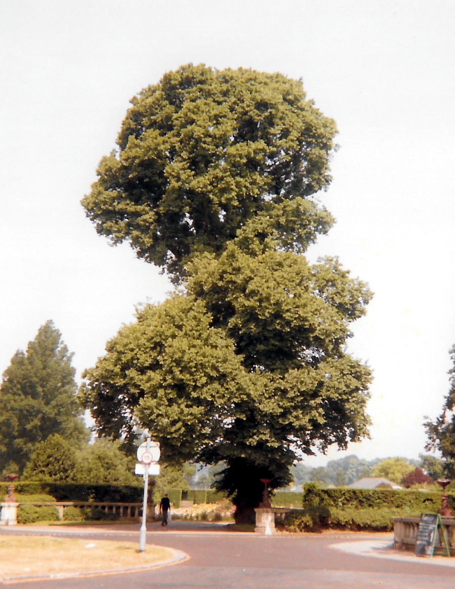 'Figure-of-eight' form of English Elm (south-east entrance to Preston Park, Brighton 1992)